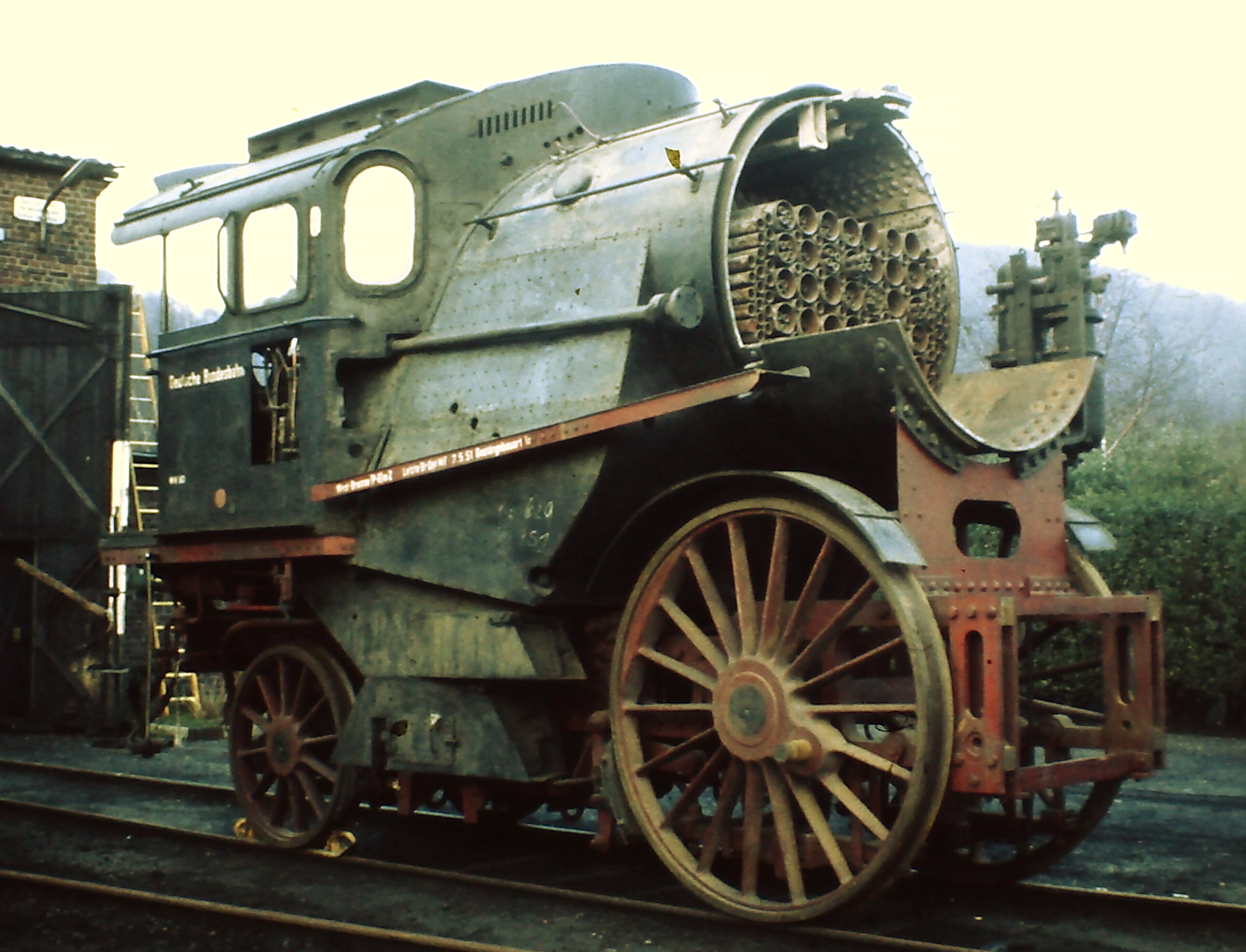 Torso 18 427 im Eisenbahnmusum Bochum-Dahlhausen (bis 2010)